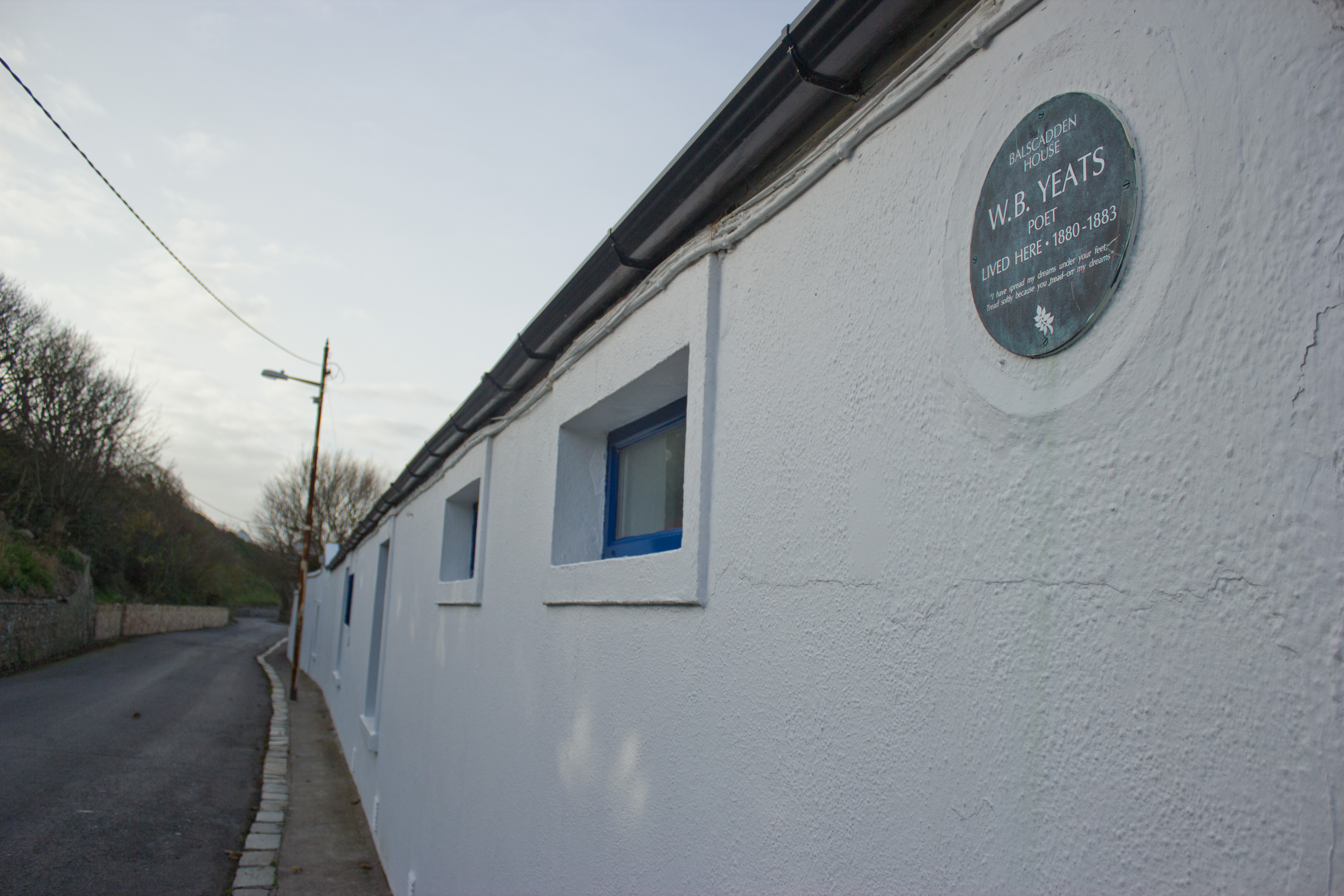 Ireland 2011